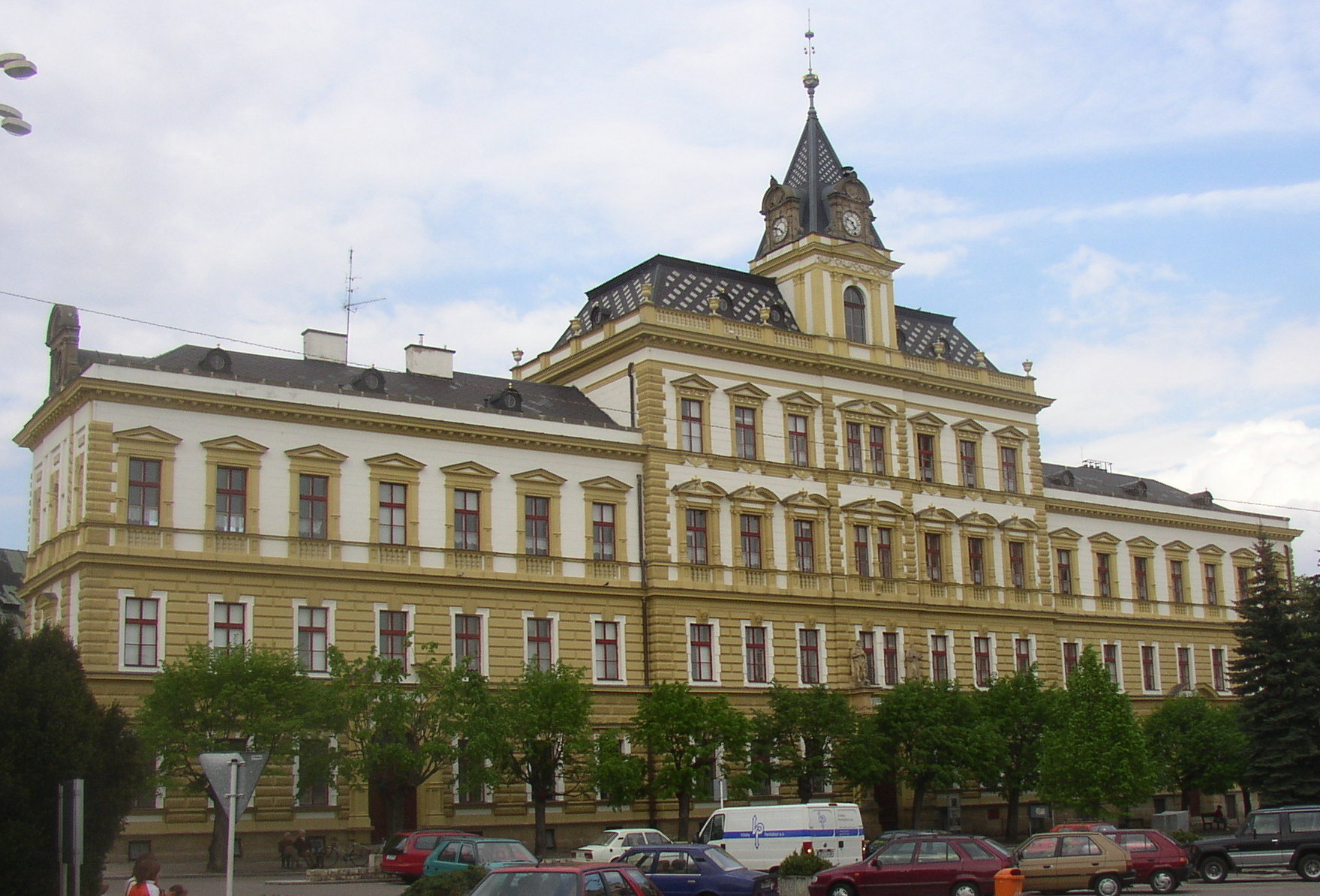 Old elementary school (1880-82) in Přelouč, Czech Republic.